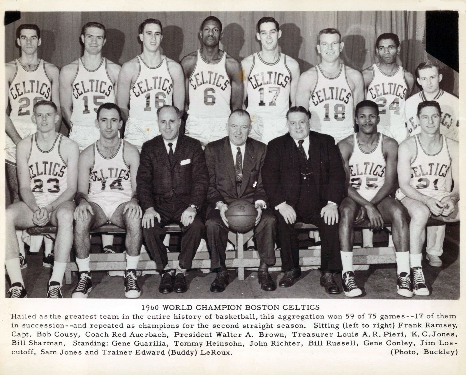 The 1959-60 Boston Celtics team that won its 3rd NBA title.